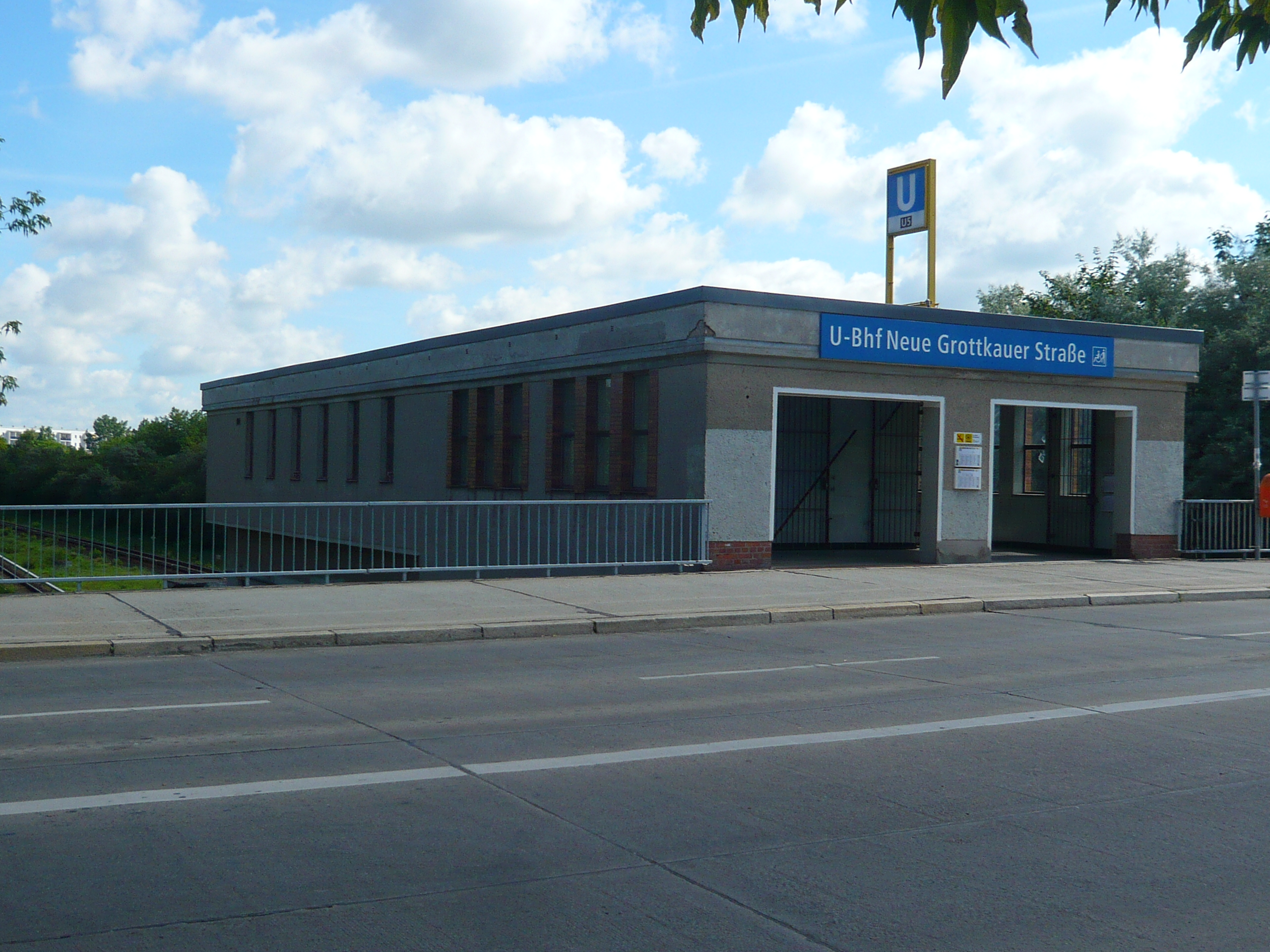 subway station Neue Grottkauer Straße in Berlin-Hellersdorf